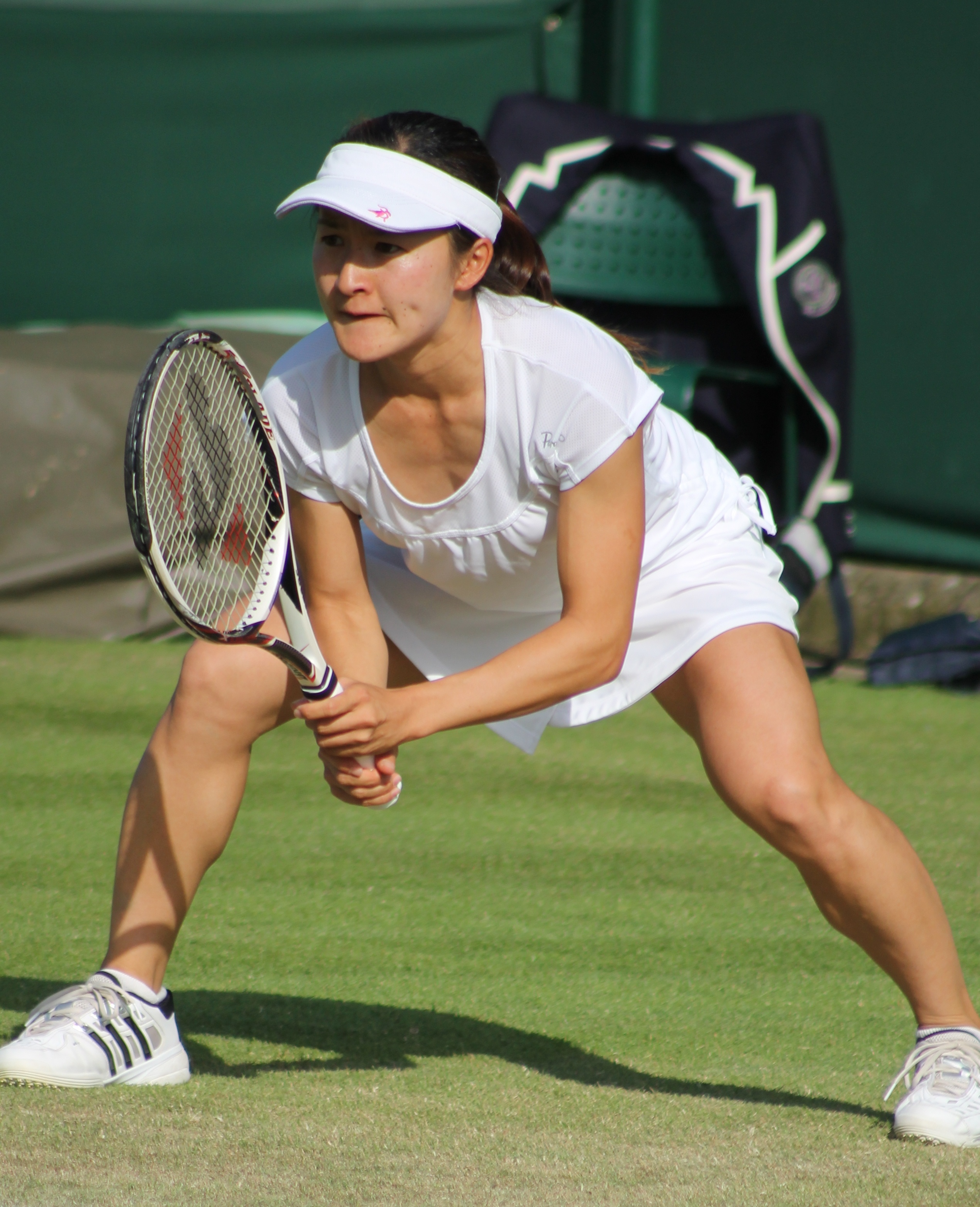 Shuko Aoyama playing in 1st Round of the Womens Doubles at Wimbledon 2013, Court 16, on 29 June 2013; partner was Chanelle Scheepers (RSA); opponents Raluca Olaru (ROU) & Olga Savchuk (UKR)